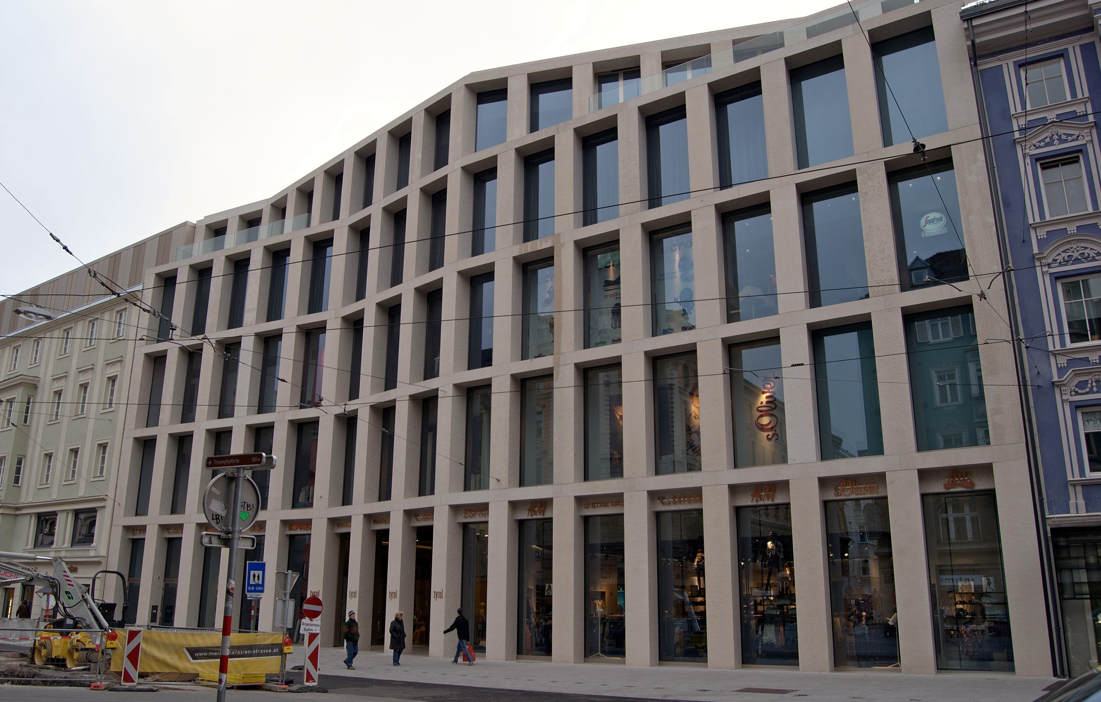 shopping center Tyrol in Innsbruck, front side on Maria-Theresien-Strasse